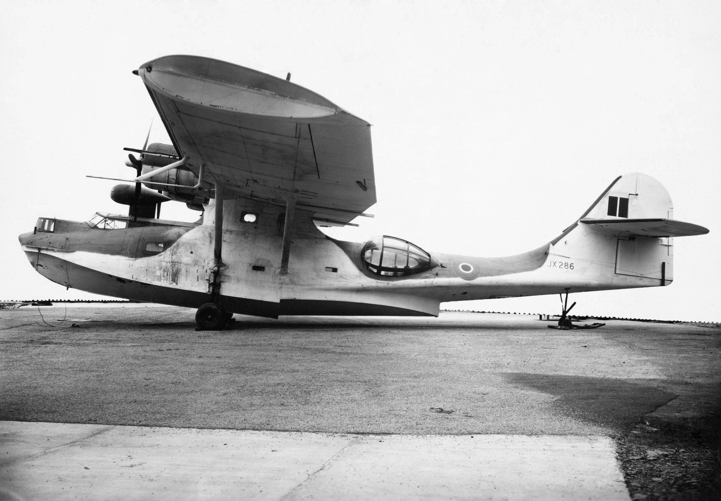 A Royal Air Force Catalina Mark IVB (s/n JX286), on the ground at Saunders Roe Aircraft Ltd, Beaumaris, Anglesey (UK). JX286 served first with the RAF Coastal Command Development Unit, followed by No. 302 Ferry Training Unit, and finally with No. 205 Squadron RAF in Ceylon. The background of the photograph has been deleted by the censor.